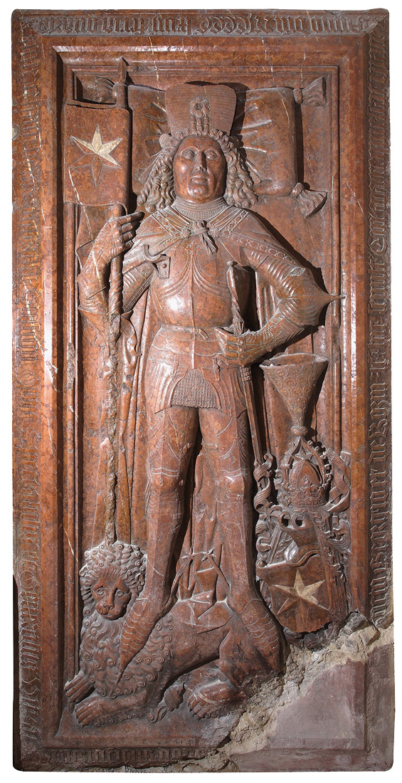 Parish church of Saint George in Svätý Jur, Slovakia - Tombstone made of red marble (1467) of Count George of Svätý Jur